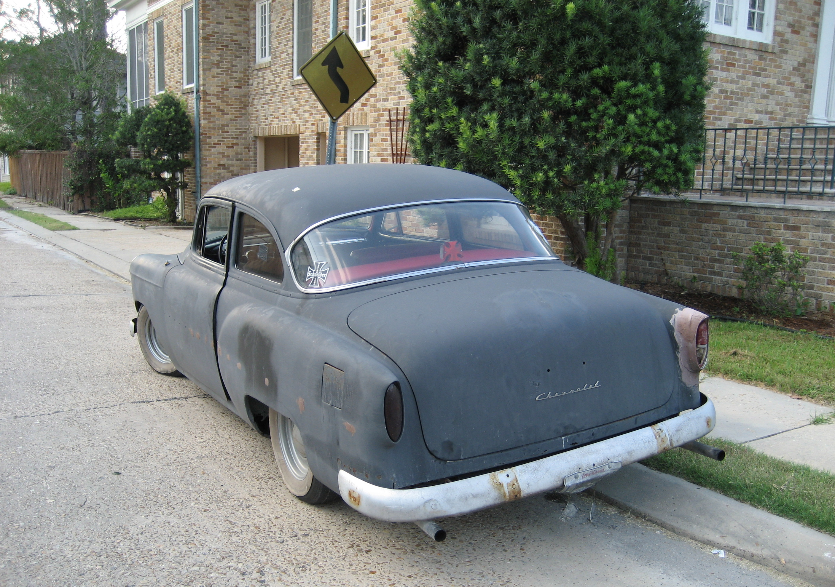 1954 Chevrolet Special One-Fifty Series 1500A in New Orleans